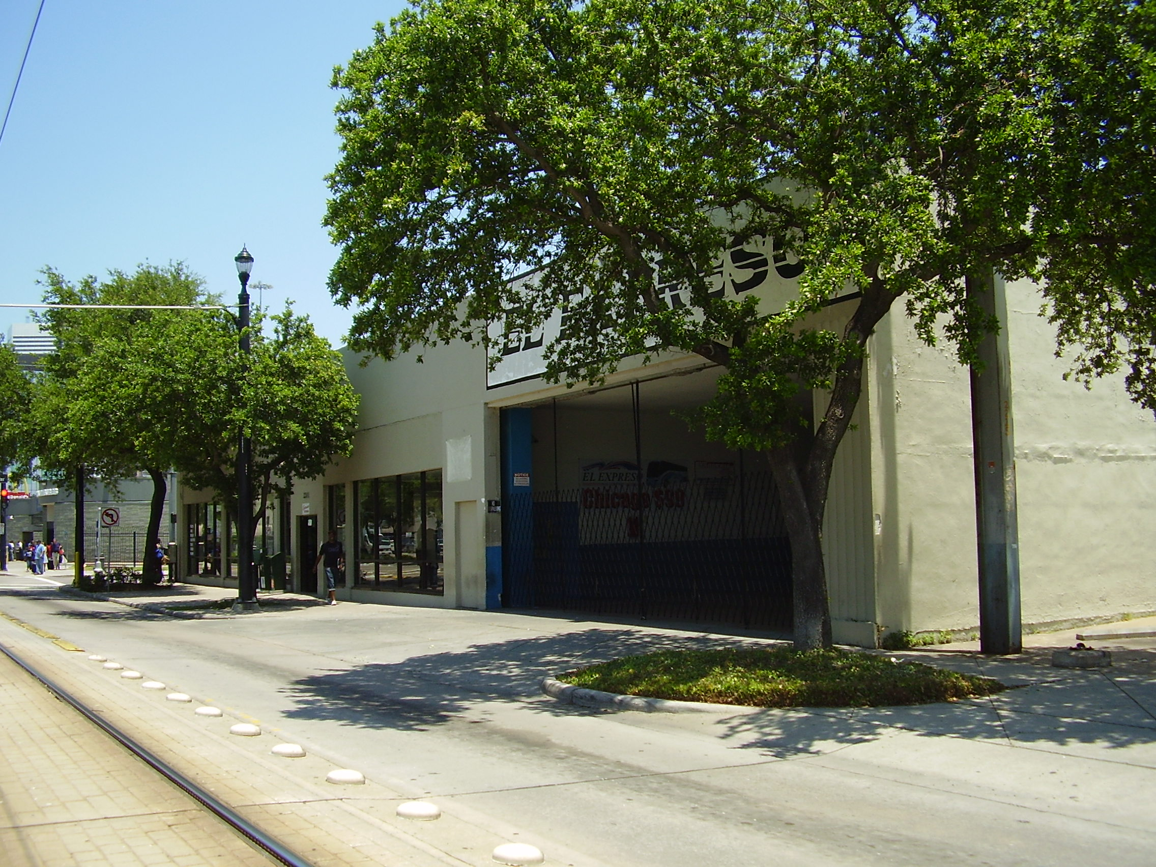 El Expreso Terminal - Midtown Houston, TX